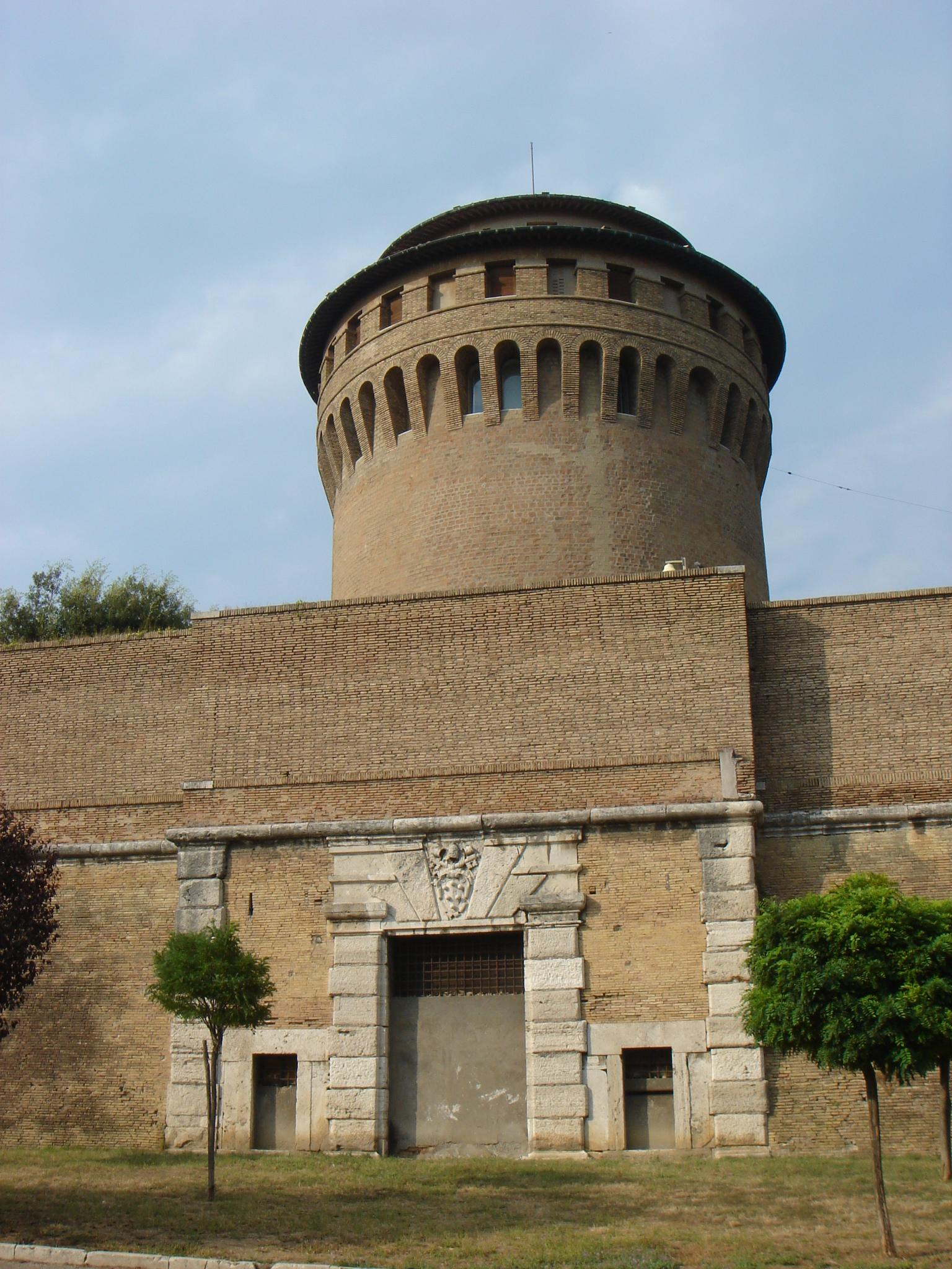 Porta Pertusa with the Vatican walls. In the background the tower of Saint John, which was part of the Leonine walls (XI sec.), whose remnants cannot be seen on the picture.